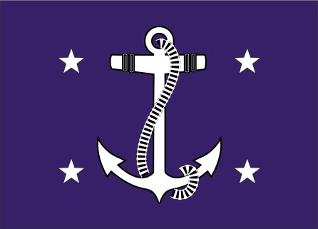 Secretary Of The Navy Flag (SECNAV)